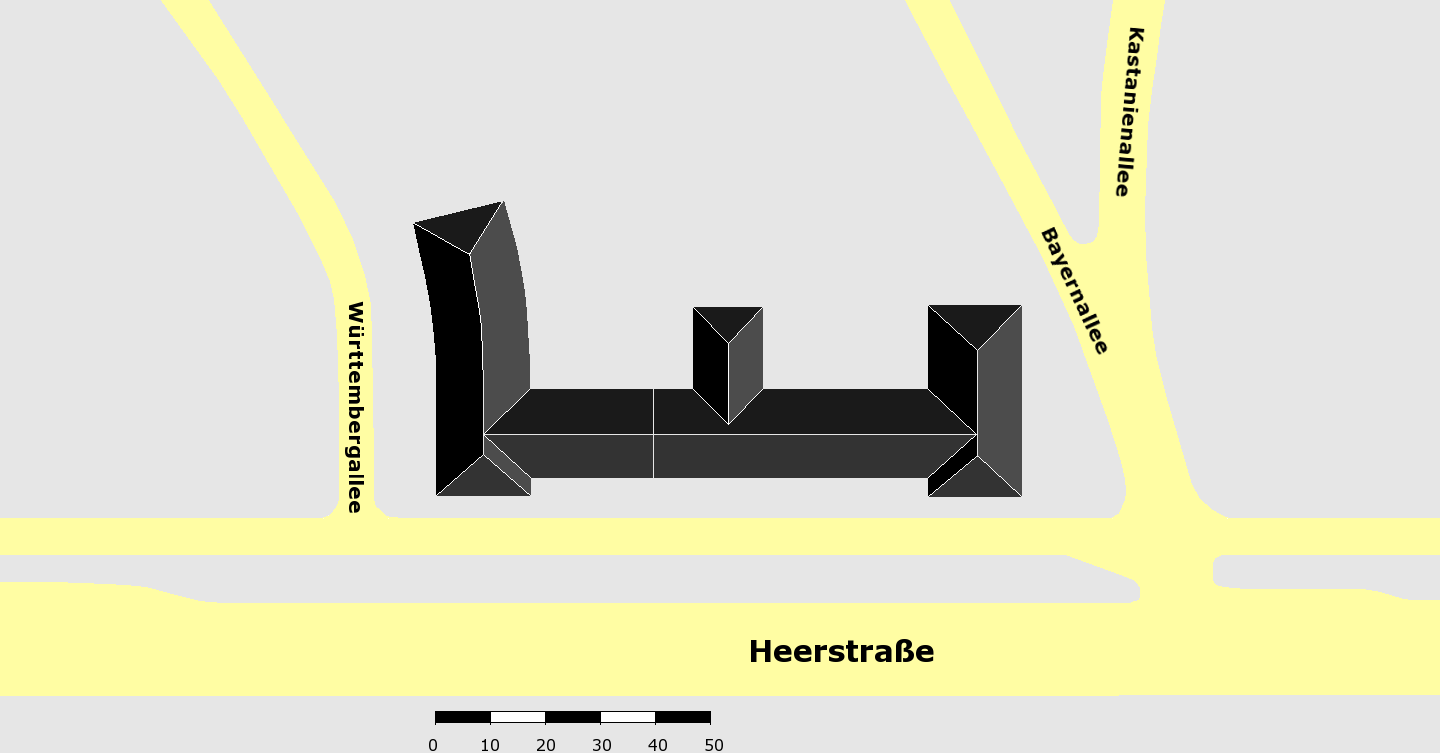 Map of the surroundings of the office building Heerstraße 12-16 in Berlin-Westend. The complex was built in 1938-41 to house the construction company Philipp Holzmann AG and the Reichsjugendführung, head organization of the Hitlerjugend among others.